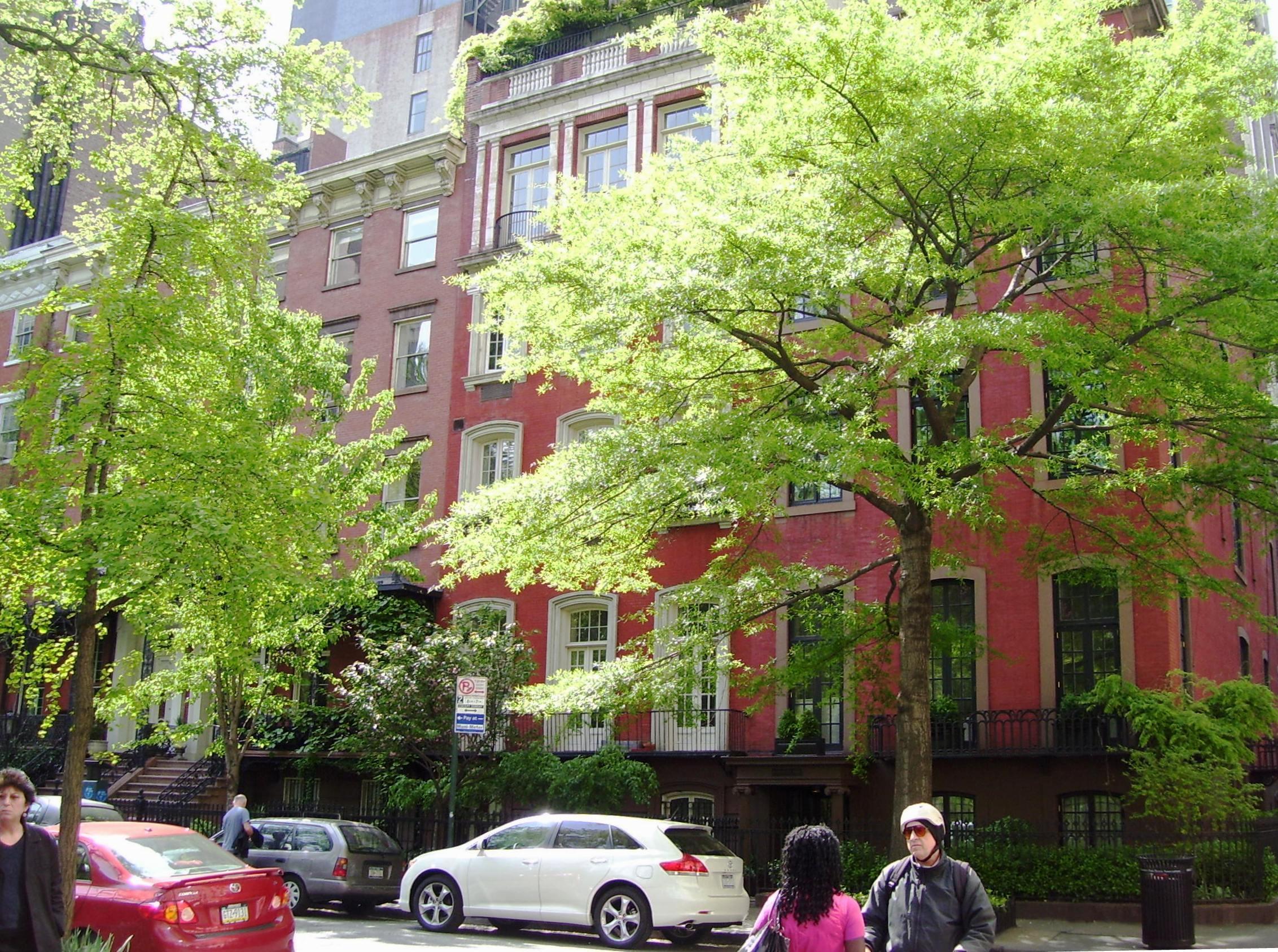 Townhouses at #1 - 4 Gramercy Park (West), all built between 1844 and 1850.